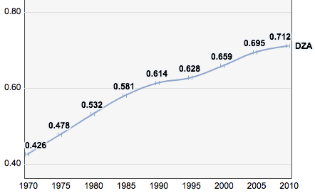 Trends in the Human Development Index for the country, 1970-2010